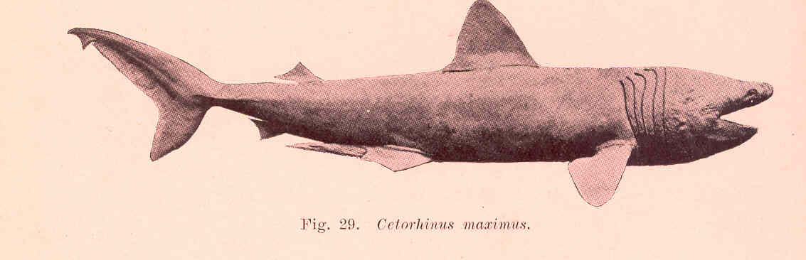 Cetorhinus maximus Subject: Sharks, Cetorhinus Tag: Fish